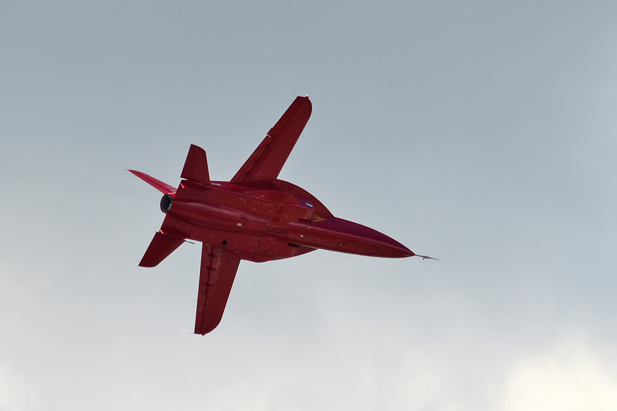 Russian Air Force, EX-88004, SAT SR-10, photographed in flight